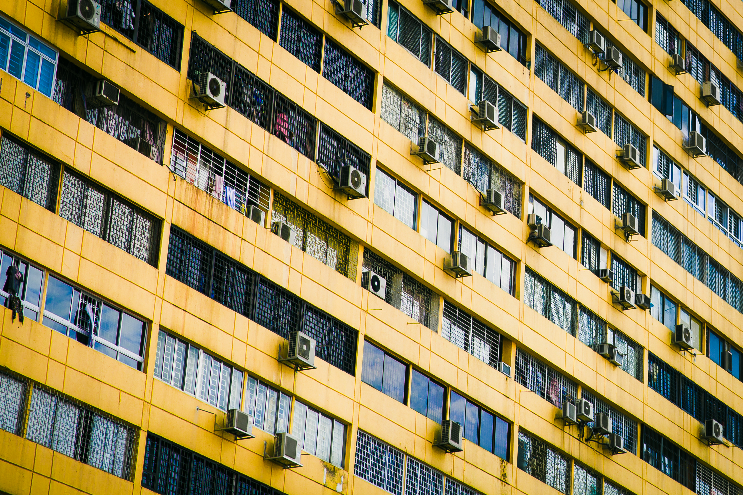 Isaac Benhesed 2017-04-30